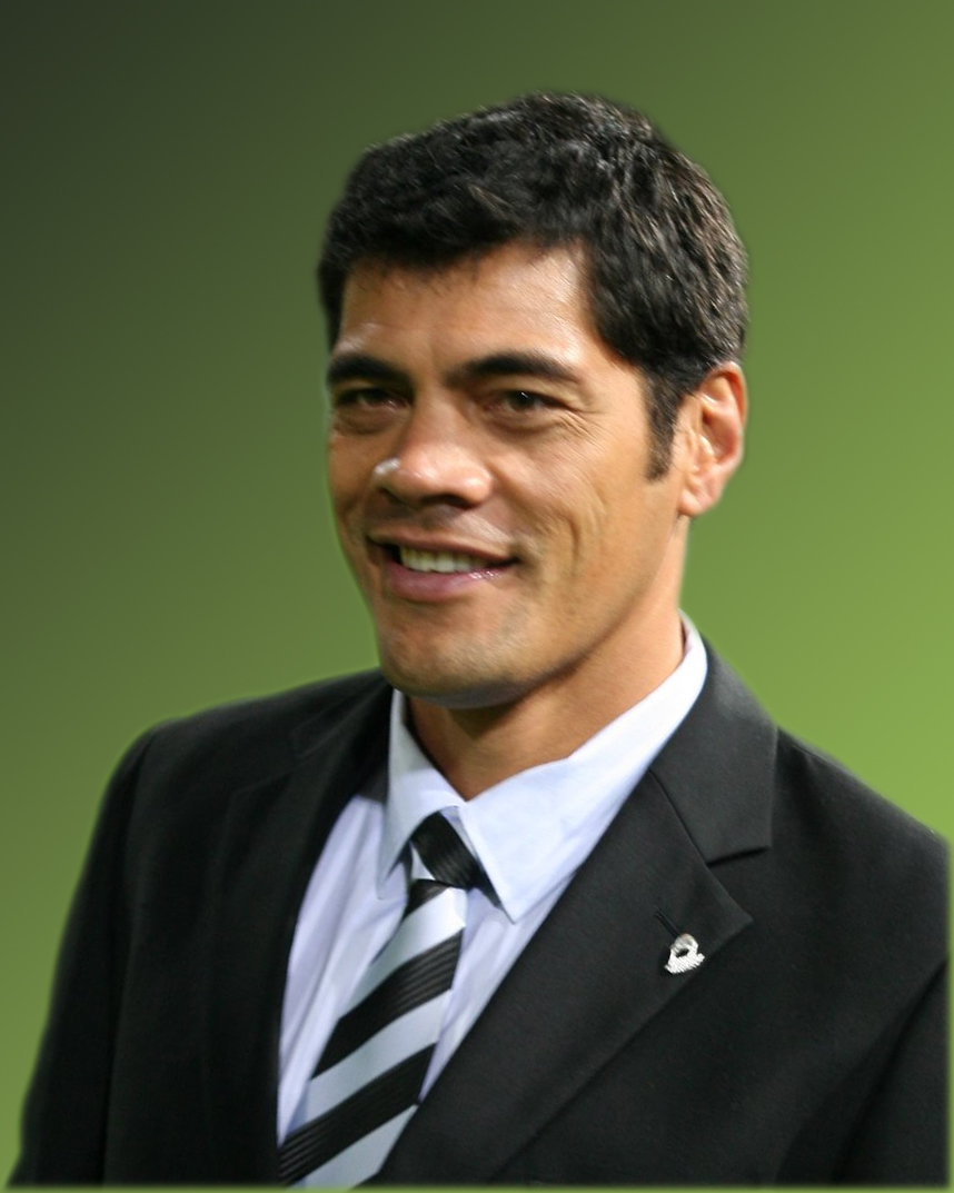 Stephen Kearney, New Zealand rugby league player. Cropped and tilt corrected, background changed